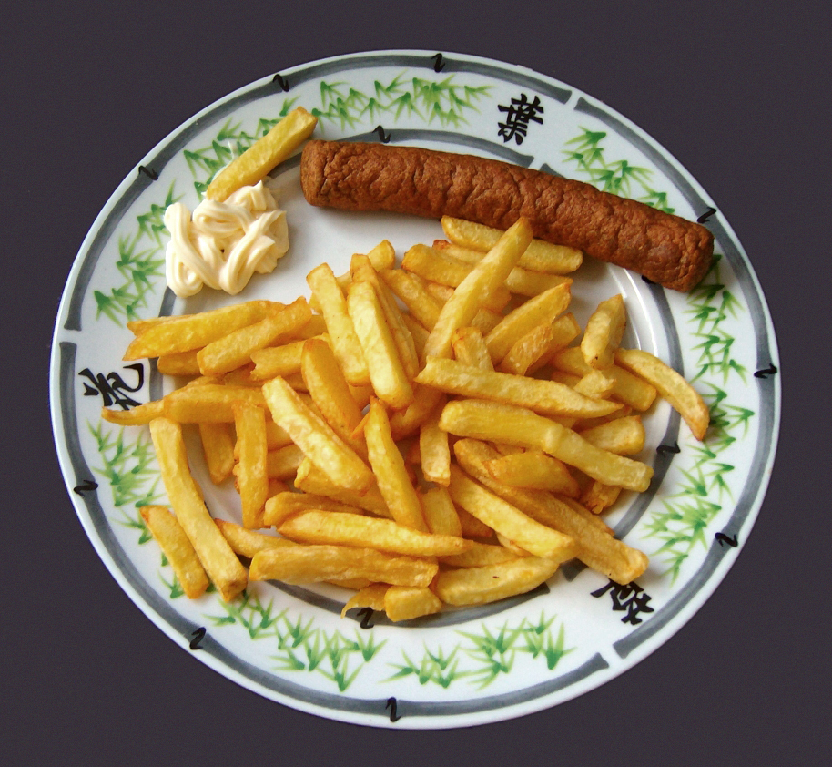 French fries, mayonnaise and frikandel, Dutch fast food